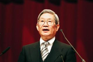 Makoto Iokibe, President of the National Defense Academy, addressed the Graduation Ceremony at the National Defense Academy in Yokosuka City, Kanagawa Prefecture on March 23, 2008.